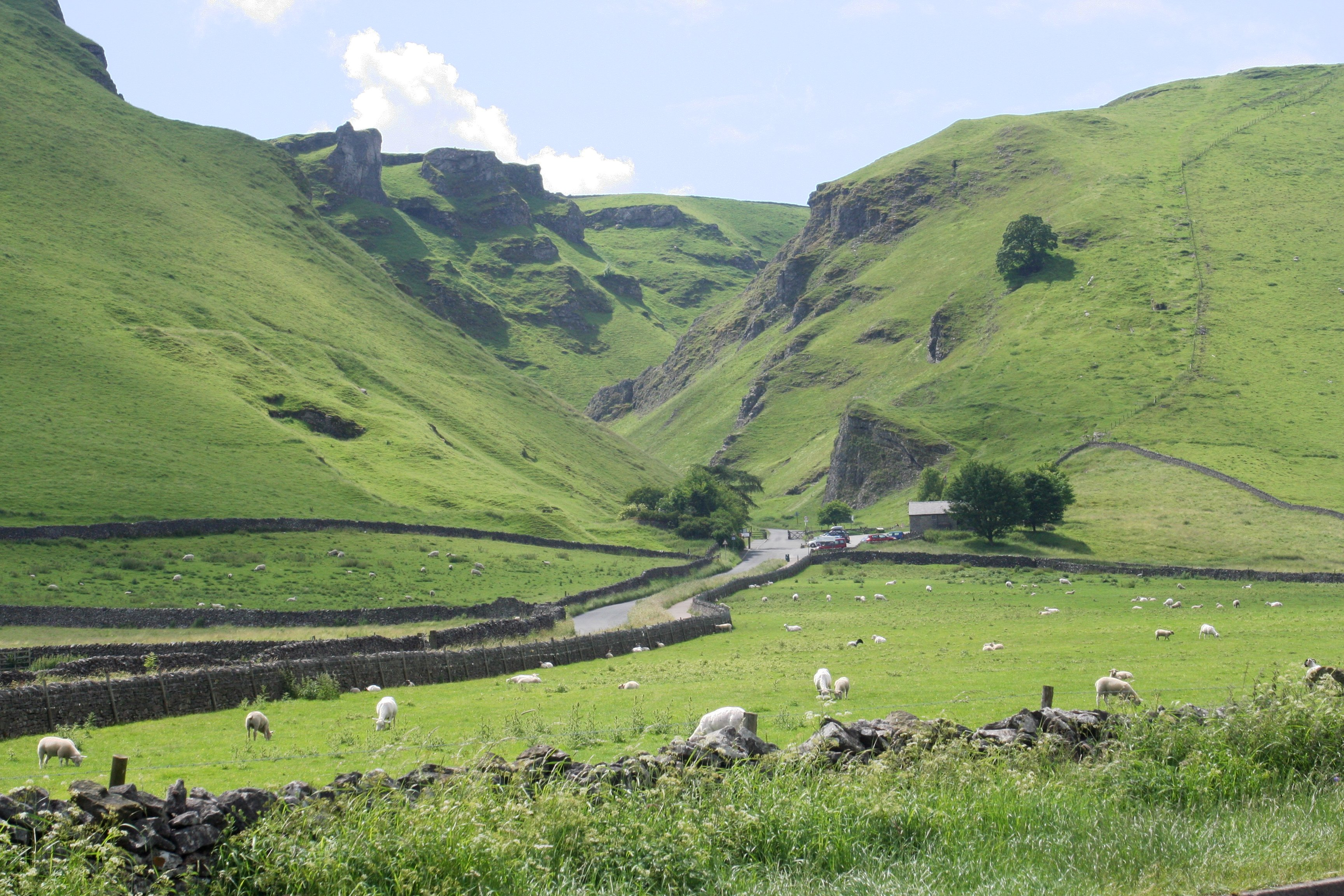 Winnats Pass, viewed from the edge of Castleton (Derbyshire, England), looking west.